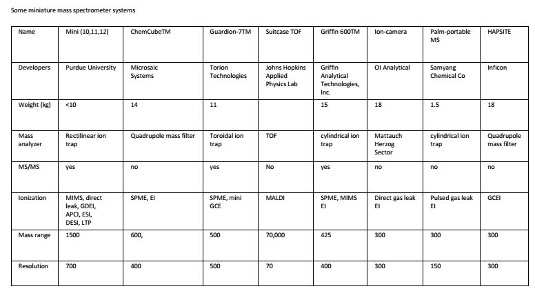 Recreate from article DOI 10.1146/annurev-anchem-060908-155229